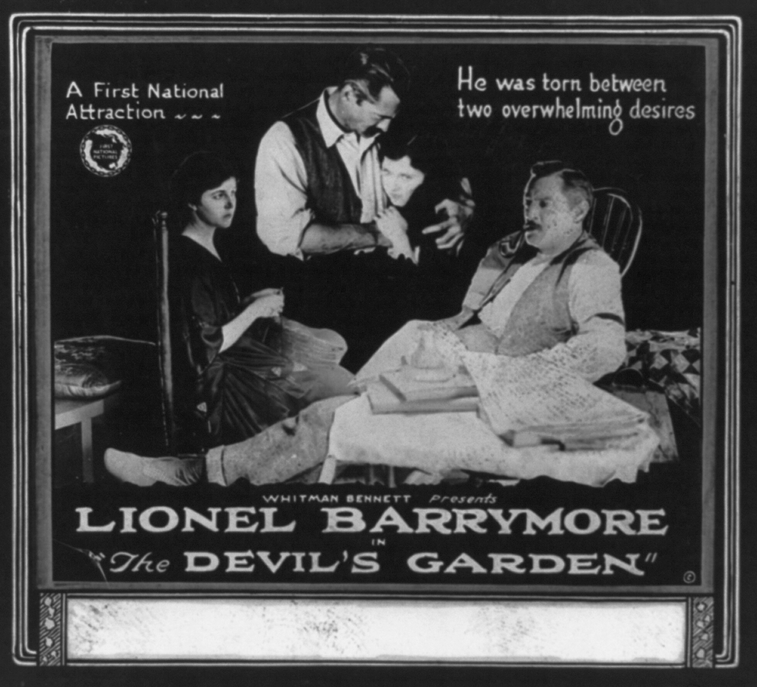 Motion picture advertisement on lantern slide for the film The Devil's Garden (1920) starring Lionel Barrymore. Used for future films at theaters. Library of Congress Reproduction Number LC-USZ62-83667.